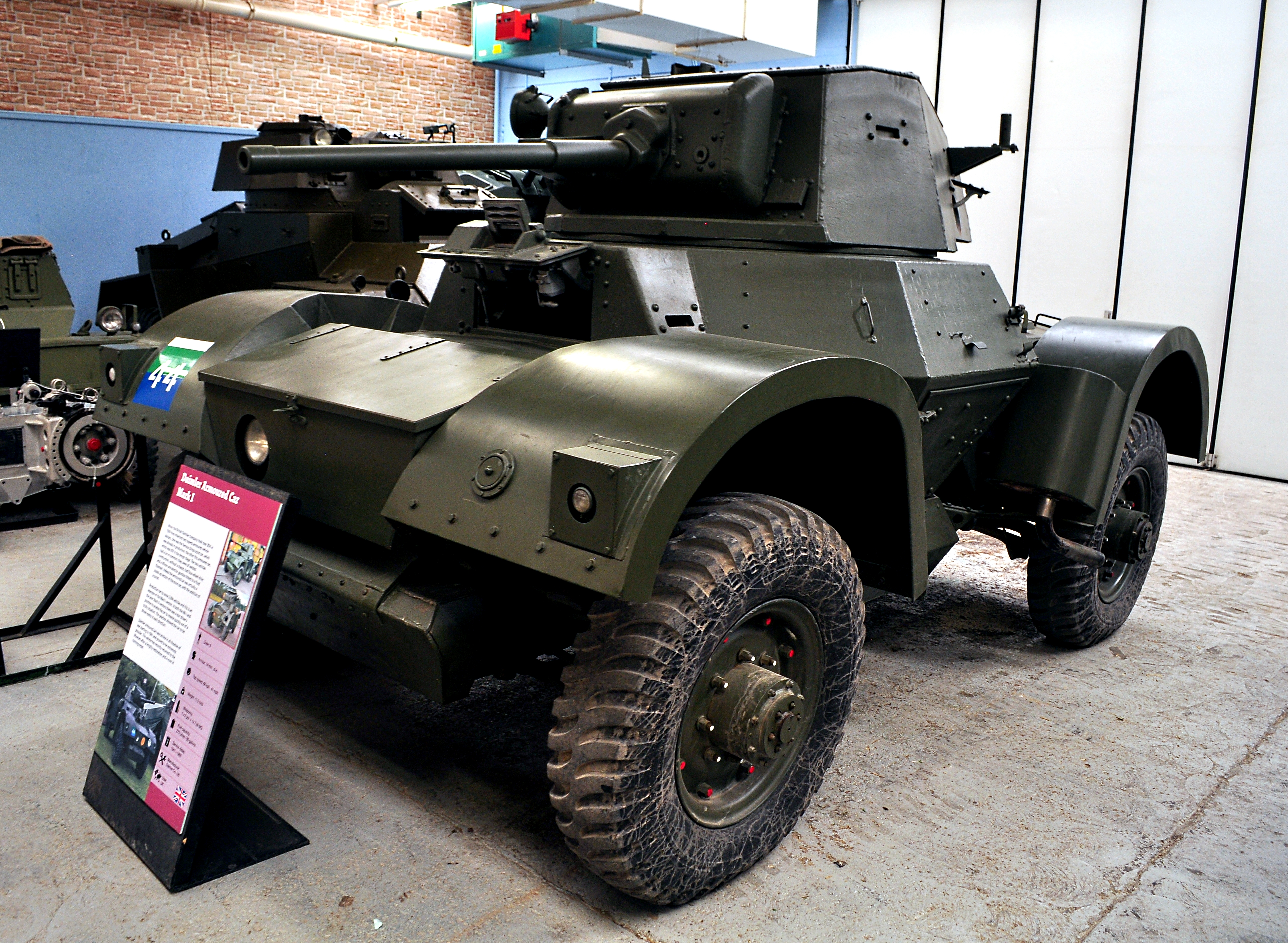 Daimler Armoured Car Mark II at the Tank Museum in Bovington